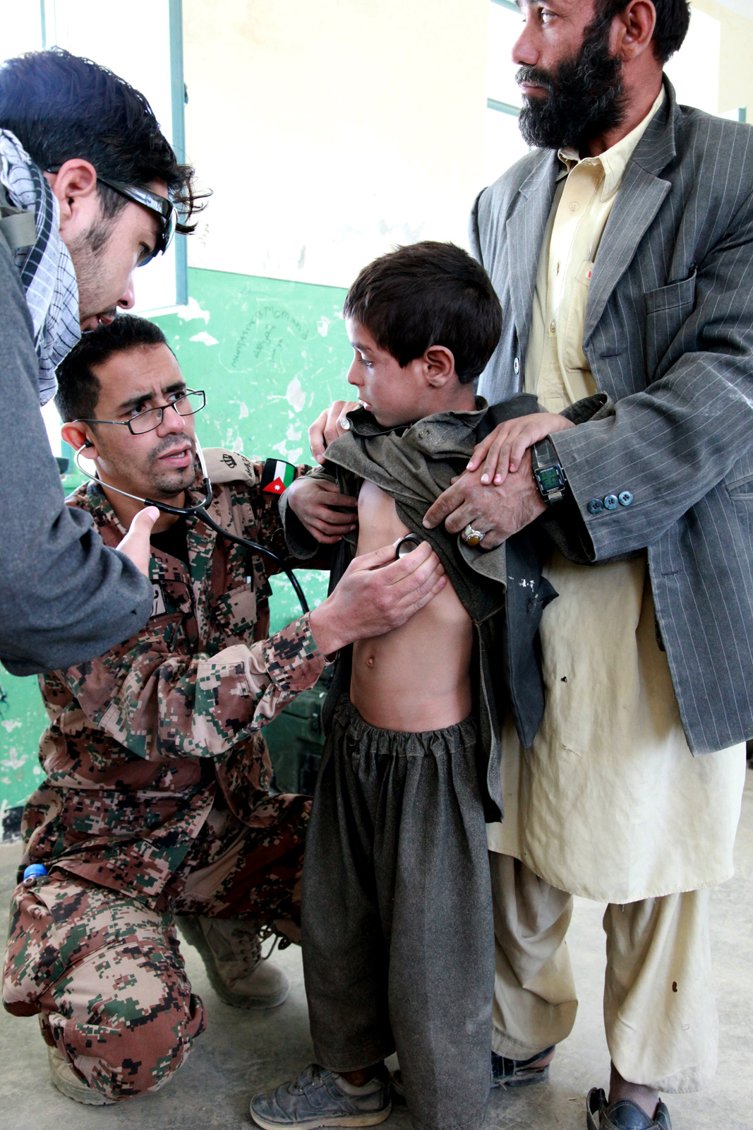 An Afghan local holds his son to let a Jordanian doctor examine him at a cooperative medical engagement in Logar Province, Afghanistan, October 22, 2009. The missions objective was to provide dental and medical aid to Afghan children, men, and women.